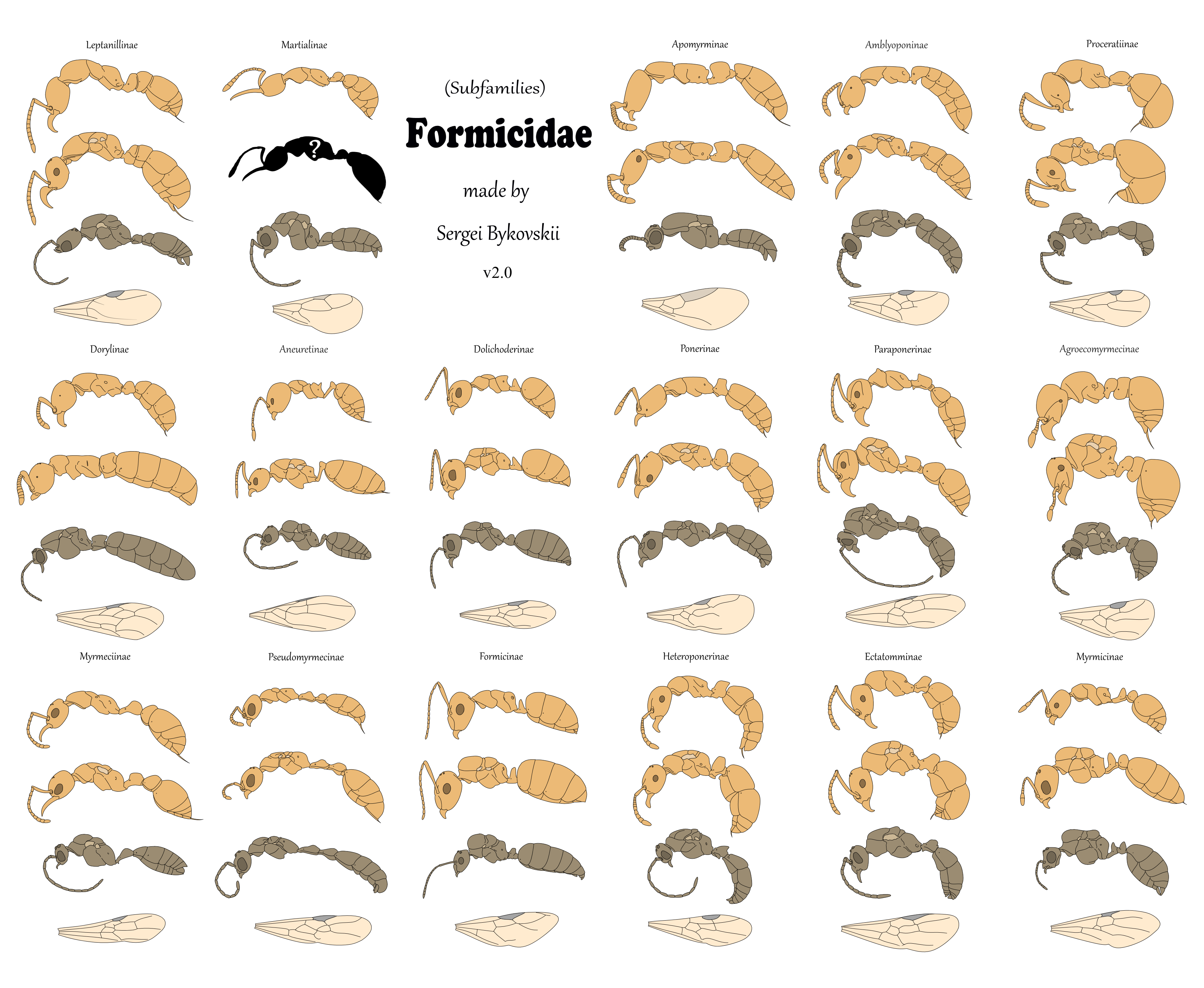 all the subfamilies of ants For each subfamily are indicated from the top down: worker, female, male, wing